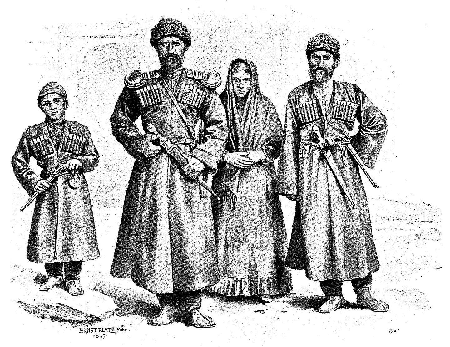 The Dadeshkeliani family in the village of Mazeri